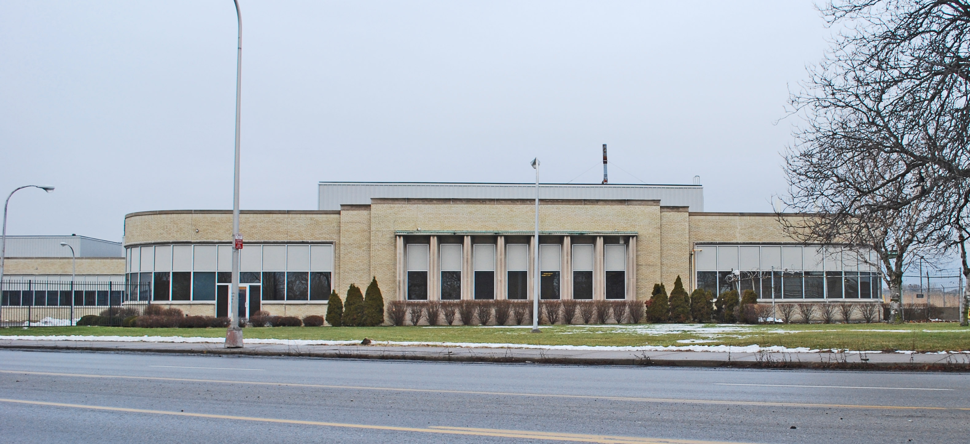 Lincoln Plant Remains, SE section on Warren, Detroit MI